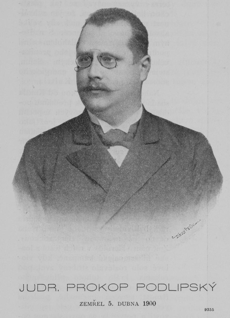 Portrait of Prokop Podlipský (1859 - 1900), Czech lawyer and politician